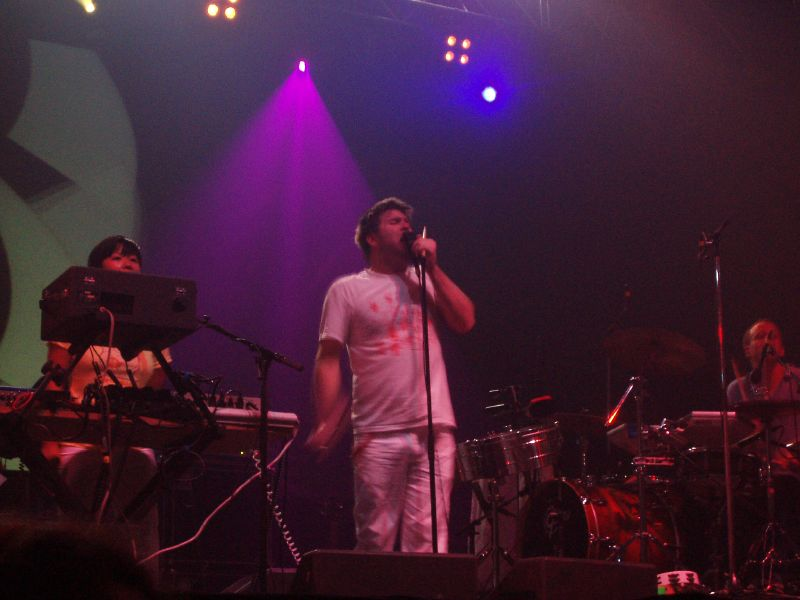 LCD Soundsystem actuant al Sonar 2005.